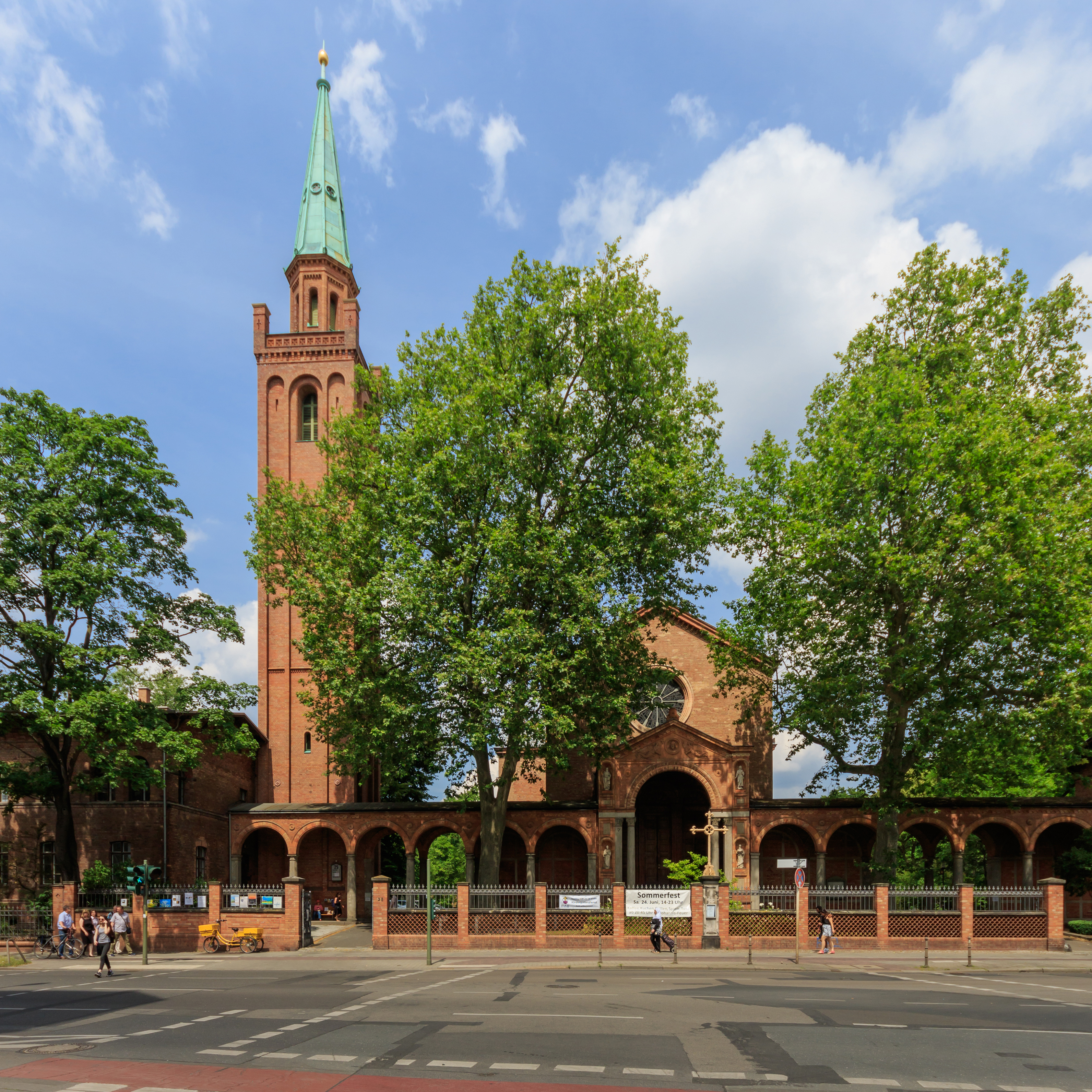 John the Baptist Church in Berlin-Moabit (Germany)